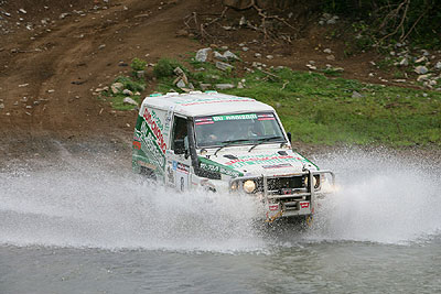 AXCR Participant in action